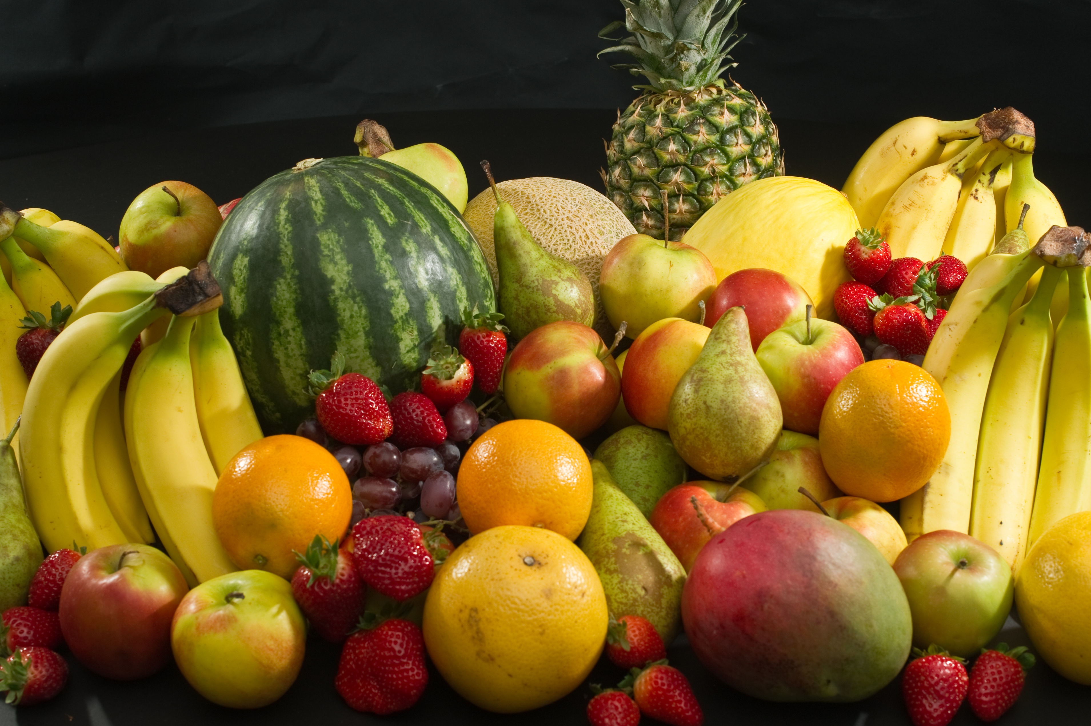 Common culinary fruits. Bananas, apples, pears, strawberries, oranges, grapes, canary melons, water melon, cantaloupe, pineapple and mango. Picture by Bill Ebbesen